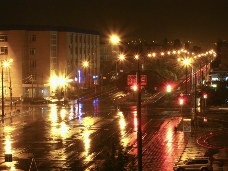 Северодонецк